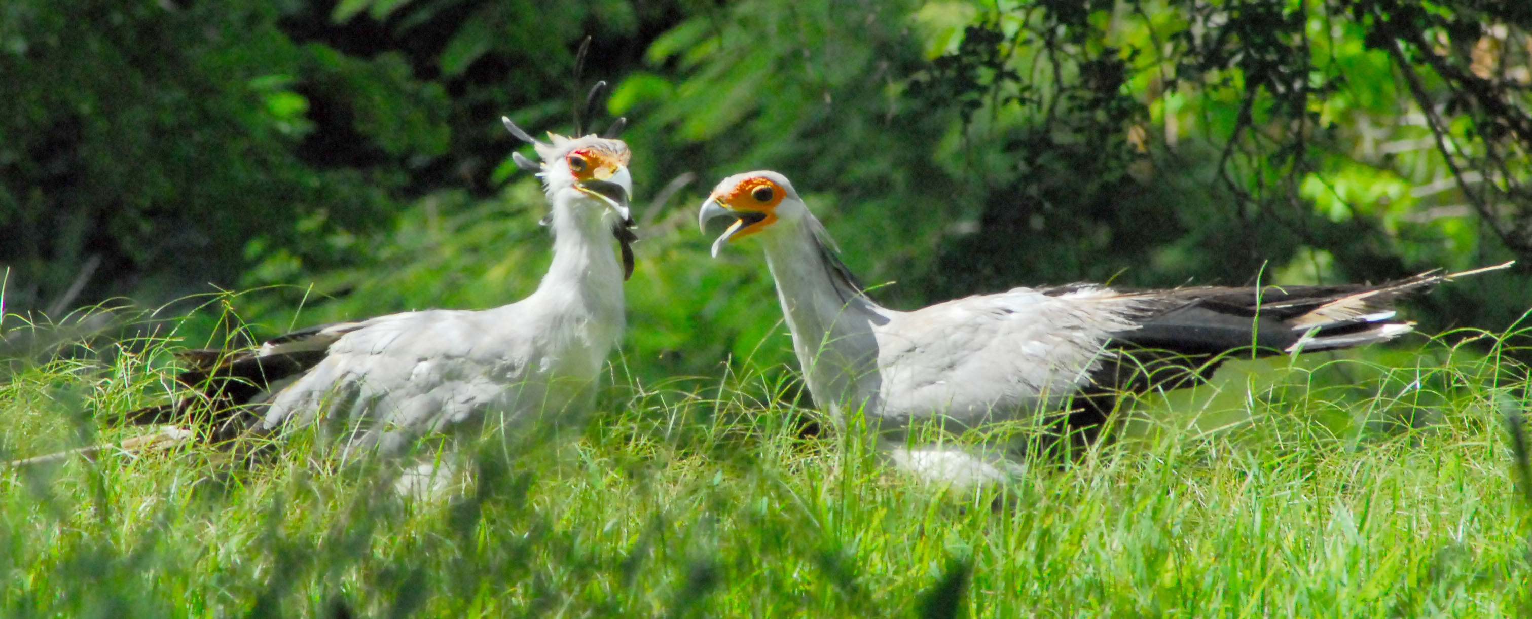 Secretary Birds at Honolulu zoo.